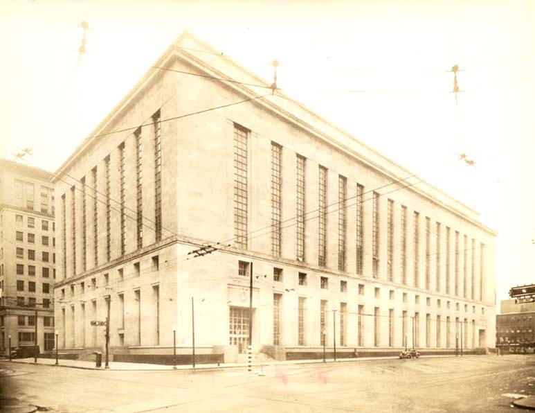 Cincinnati, Ohio U.S. Post Office and Courthouse (n.d., ca. 1938) Completed in 1938. Supervising Architect: Louis A. Simon Still in use by the U.S. District Court for the Southern District of Ohio and the U.S. Court of Appeals for the Sixth Circuit. Renamed the Potter Stewart United States Courthouse in 1994.